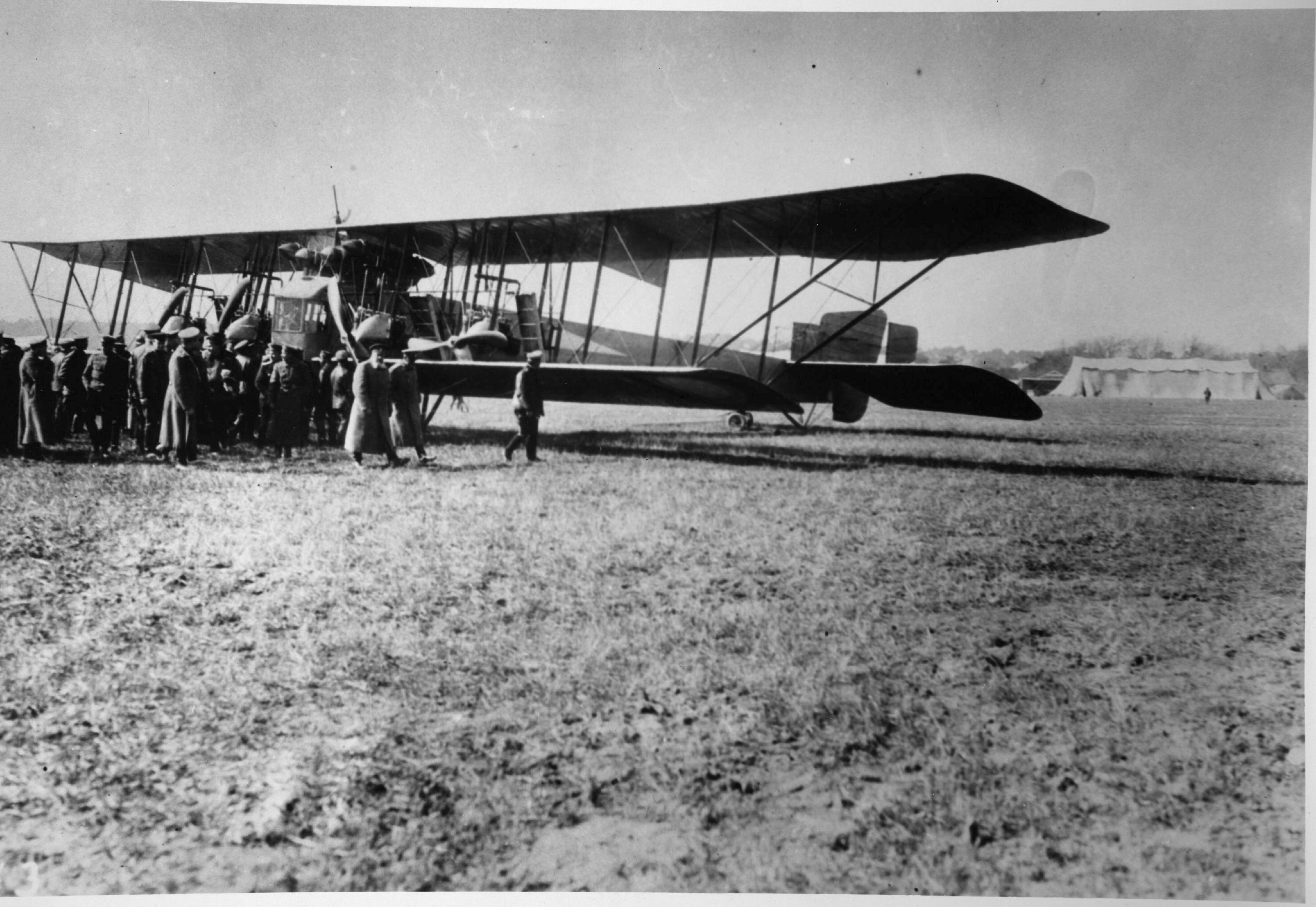 Sikorsky Ilya Muromets bomber, "sharp-nosed" S-23 type V (Veh, Cyrillic В). (Note there are errors in the original source description; this image previously had been misidentified as Sikorsky's S-21 "Grand".) Sikorsky (Igor), S.21, Sikorsky Ilya Muromets Catalog #: 12_00087514 Manufacturer: Sikorsky (Igor) Designation: S.21 Official Nickname: The Grand Notes: Russia Repository: San Diego Air and Space Museum